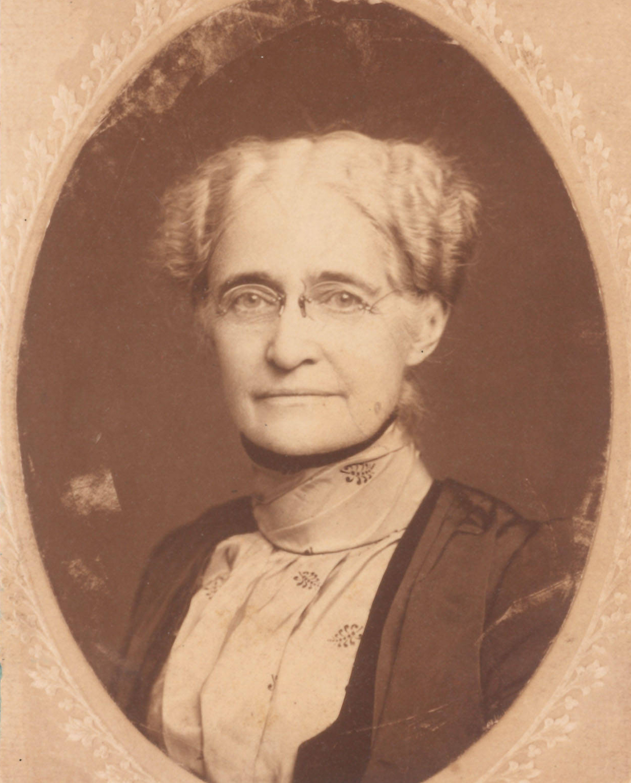 photo of Mary Jane Coggeshall